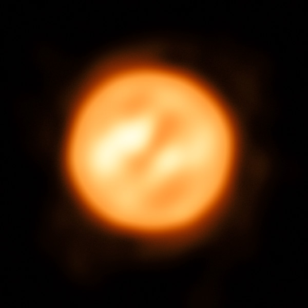 Using ESO’s Very Large Telescope Interferometer astronomers have constructed this remarkable image of the red supergiant star Antares. This is the most detailed image ever of this object, or any other star apart from the Sun.